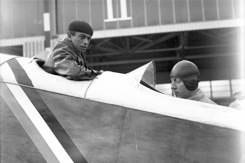 The plane is Caudron-193, F-AJSH, start number L3.